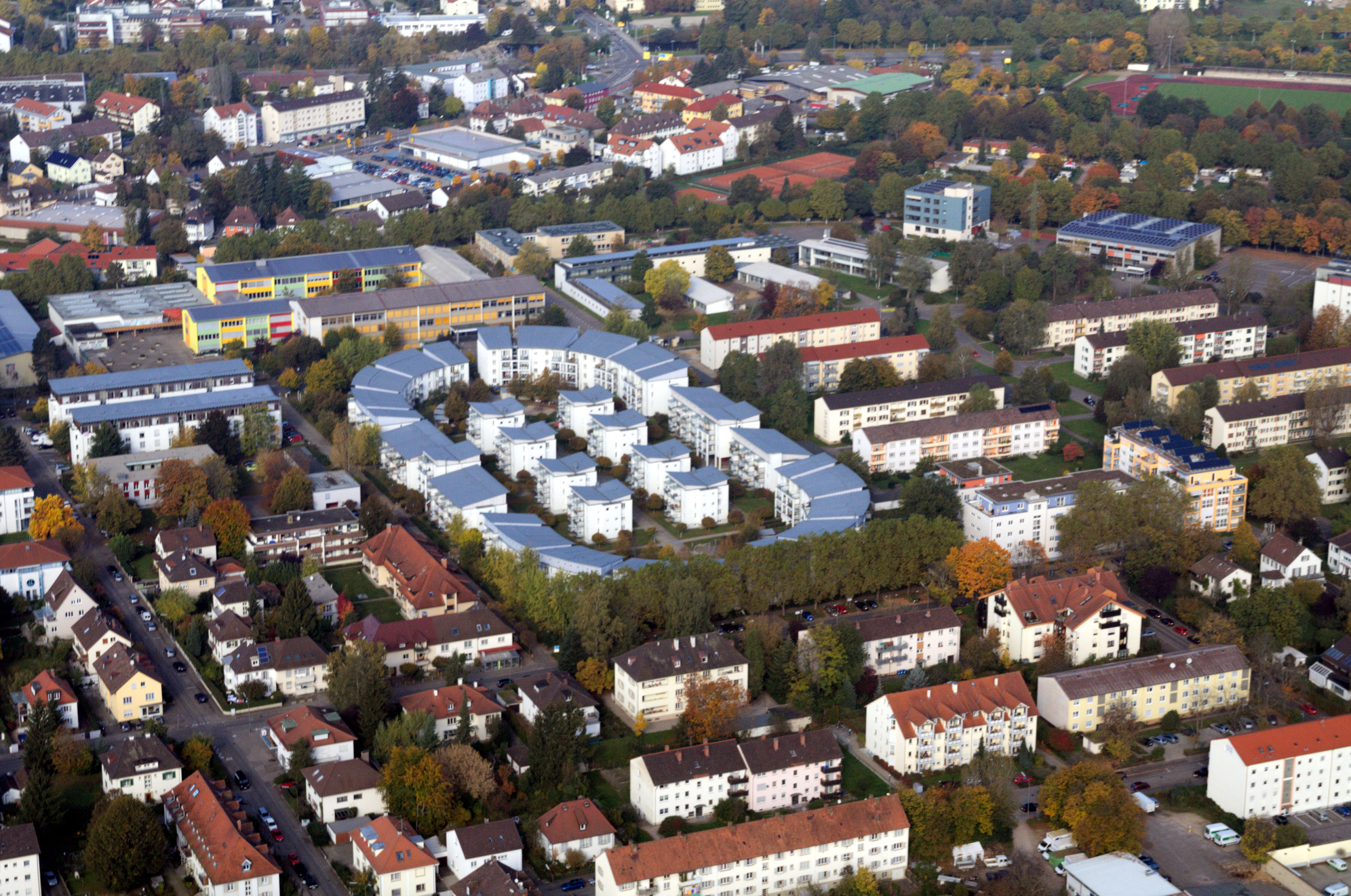 Aerial view of condominium "stadium" in Lörrach